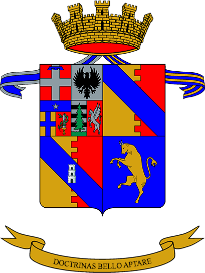 Coat of Arms of the Application School; Italian Army.